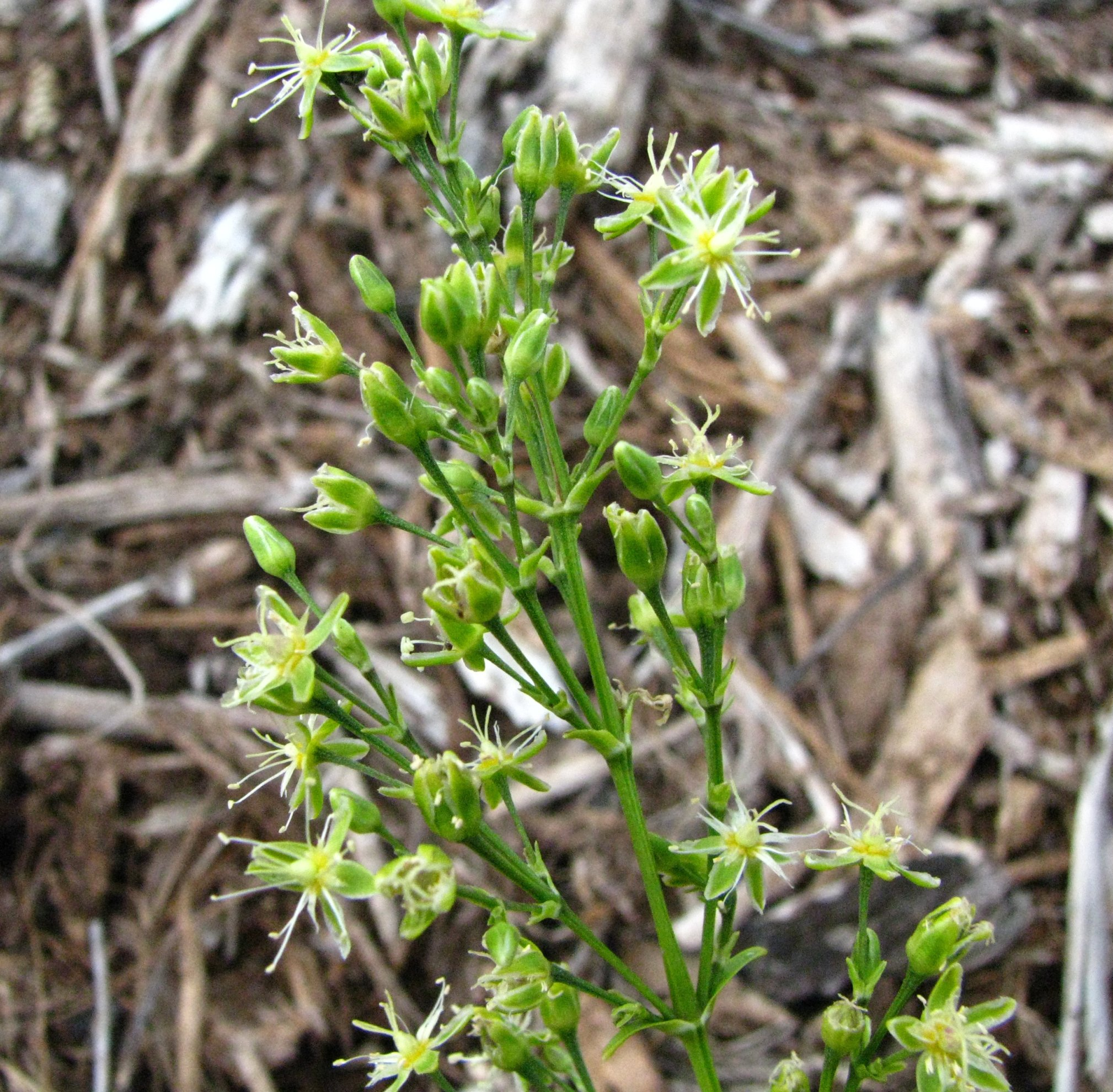 Diamond Head schiedea Caryophyllaceae Endemic to the Hawaiian islands Endangered Oʻahu (Cultivated)